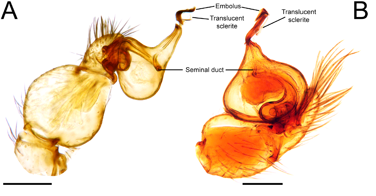 Male copulatory bulb of Unicorn spp. cleared in a clove oil. (A) Unicorn catleyi; (B) U. argentina. Scale bars = 0.2 μm.